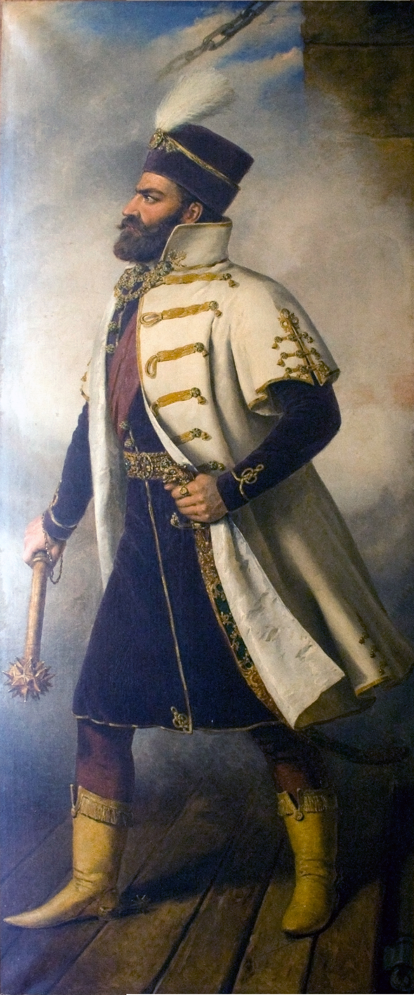 Interior trade sign in Budapest in the middle of the 19. century